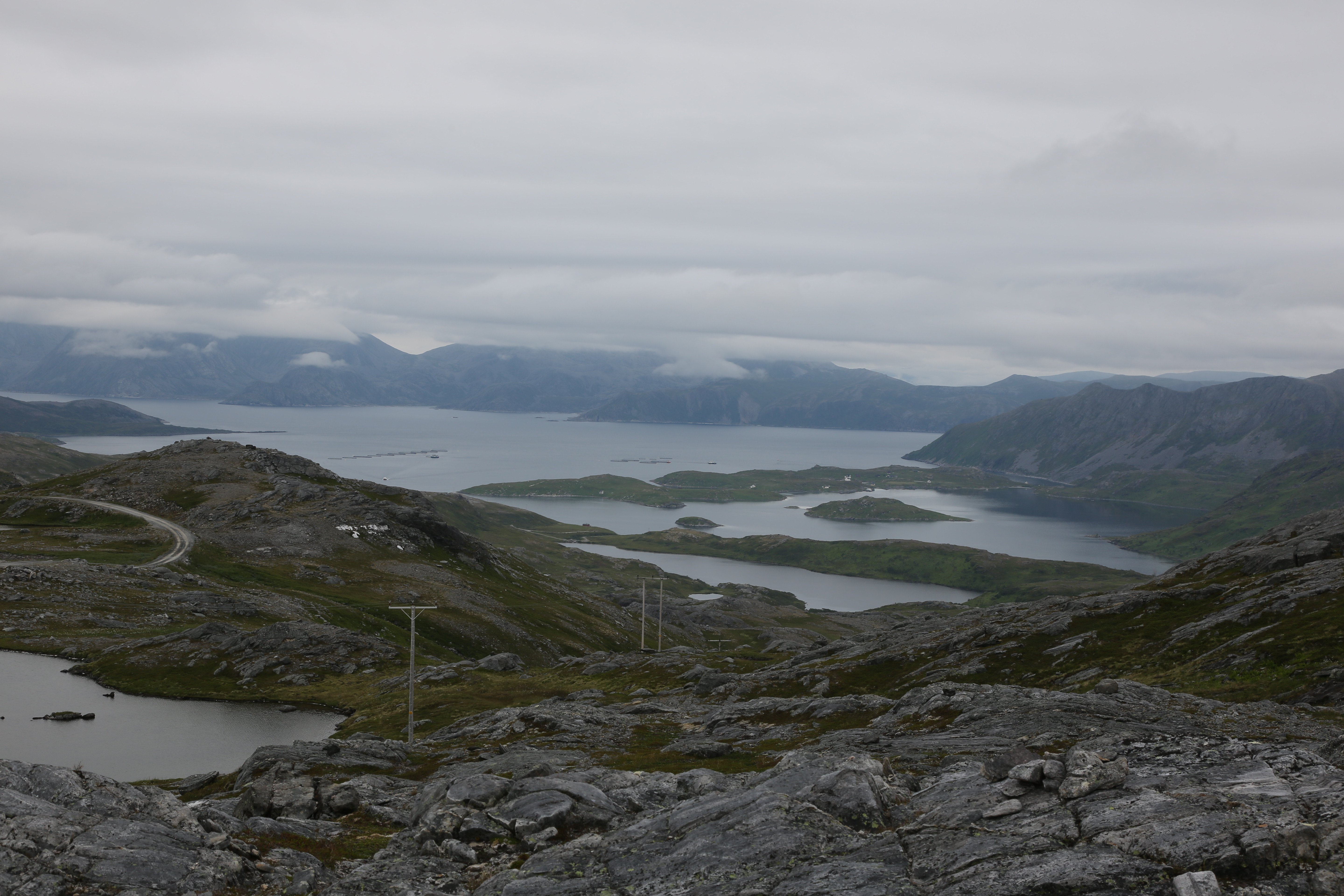 Dønnesfjord, Hasvik kommune, Finnmark